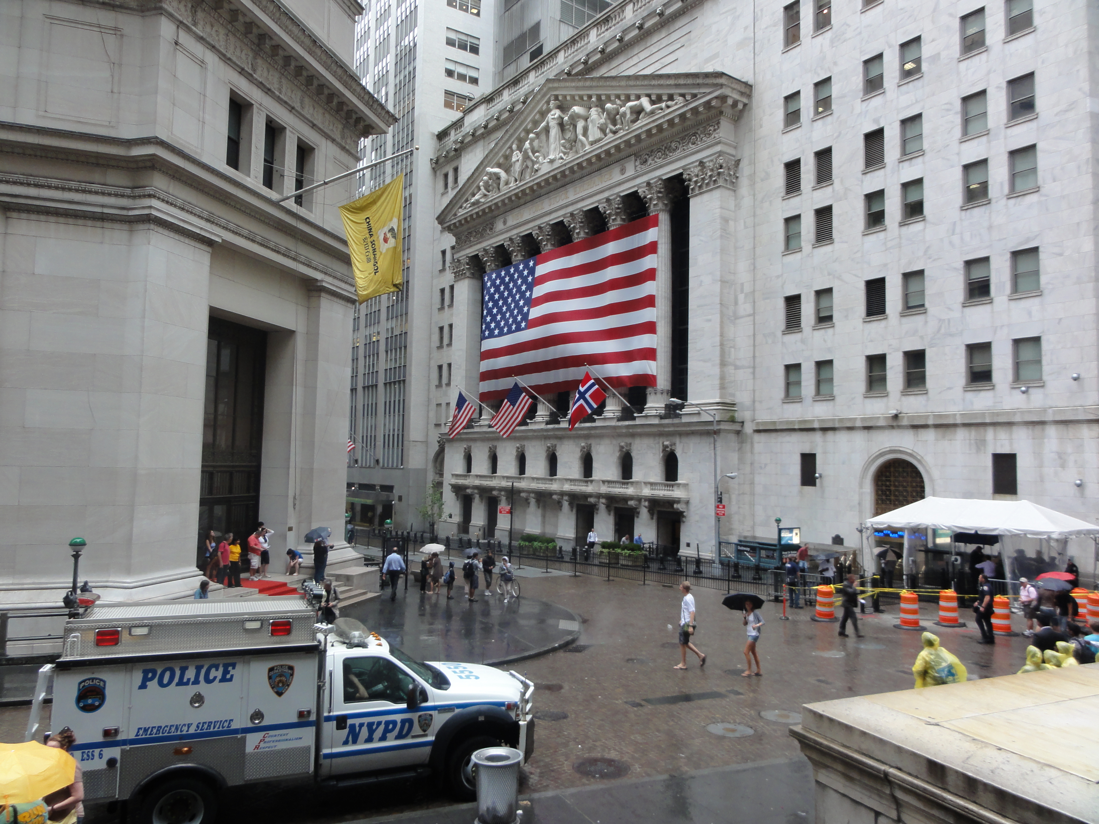 Broad Street